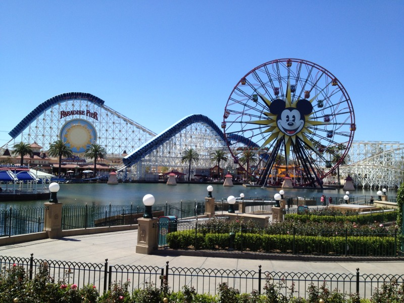 Overlooking paradise bay towards Mickey's Fun Wheel and California Screemin'